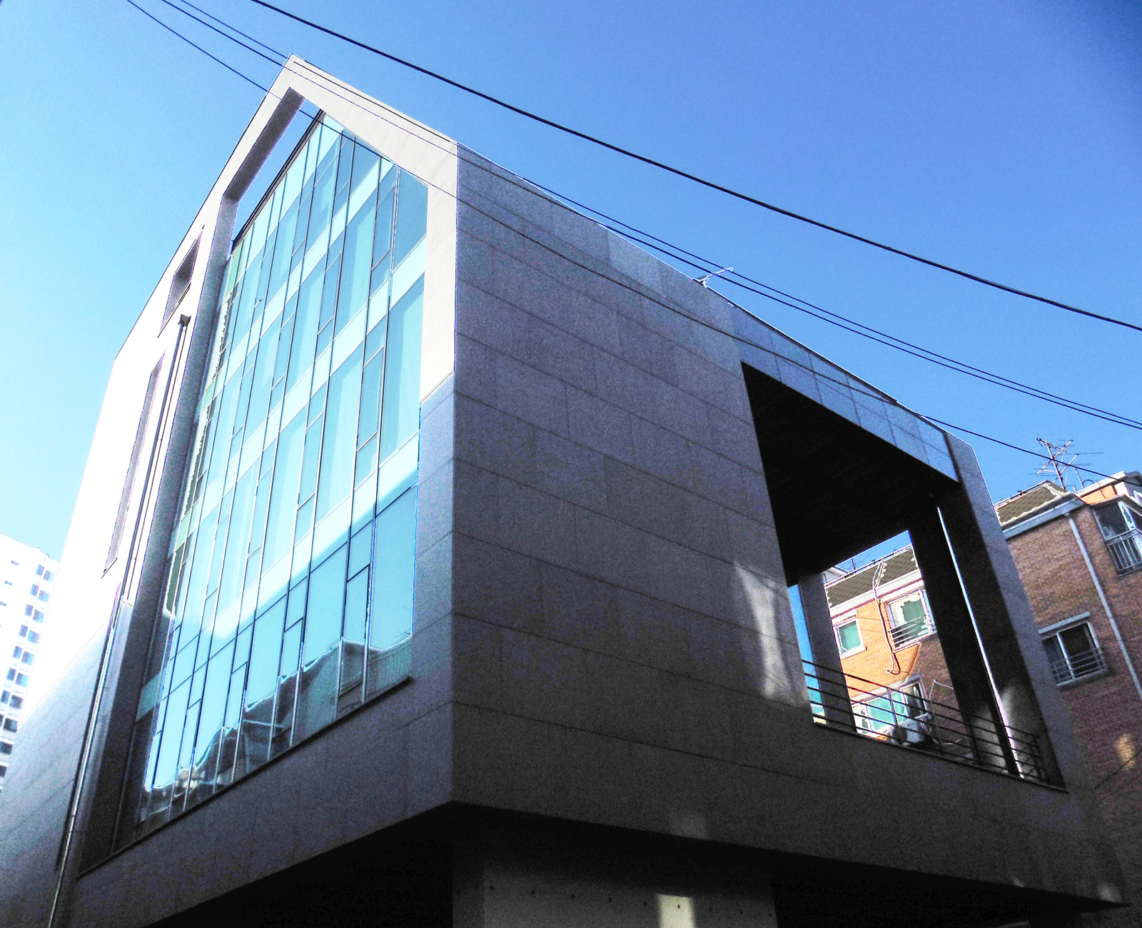 Building of K-SPORTS Foundation